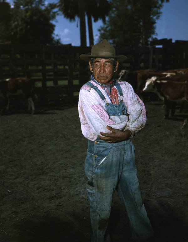 Local call number: JJS0607 Title: Seminole cattleman Charlie Micco, Brighton Reservation Date: 1949 Physical descrip: 1 transparency - col. - 5 x 4 in. Series Title: Repository: 500 S. Bronough St., Tallahassee, FL 32399-0250 USA. Contact: 850.245.6700. Persistent URL